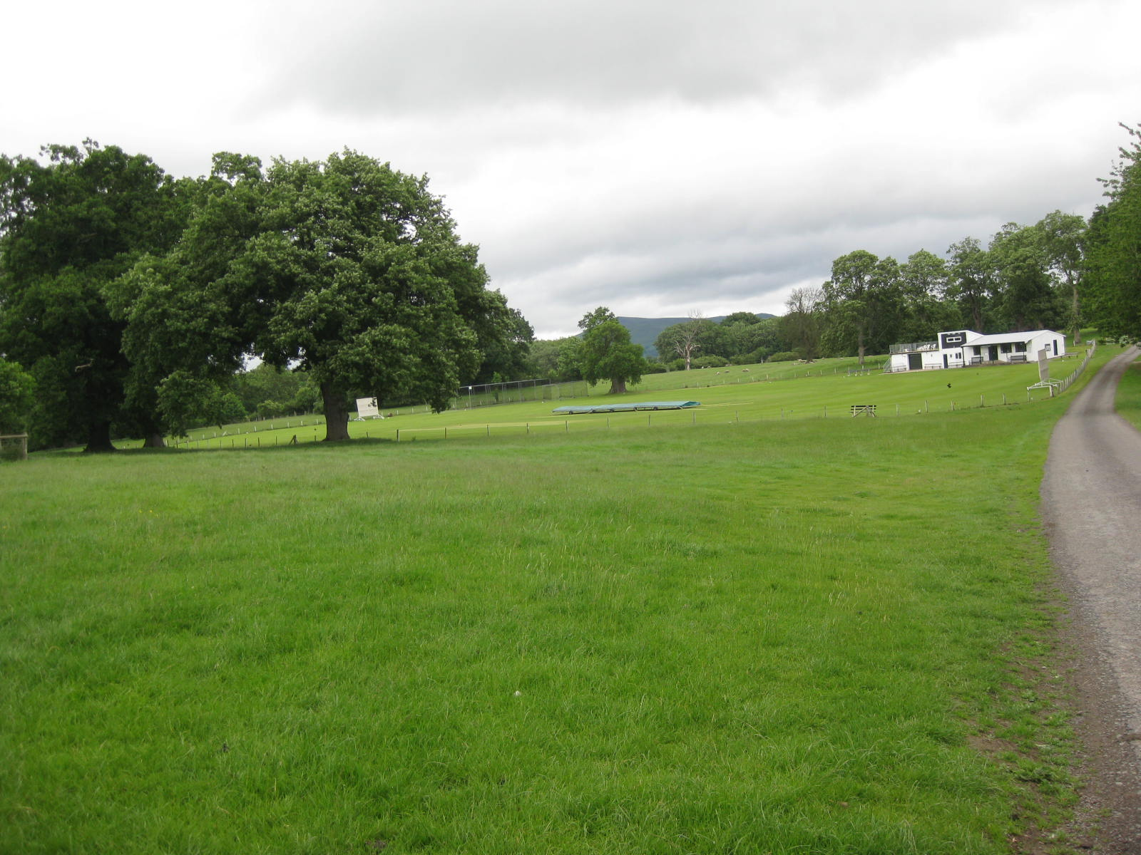 Possibly the oldest cricket pitch in Montgomeryshire. The ancient oak trees to left and Corndon Hill in distance.